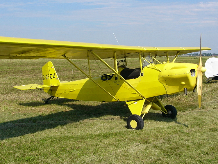 I took this photo of a Pietenpol Air Camper GN1 (C-GFCU) at Arnprior on 6 July 2006